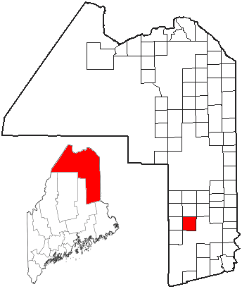 Adapted from U.S. Census Bureau maps (American FactFinder) and Wikipedia's ME county maps by Bumm13.